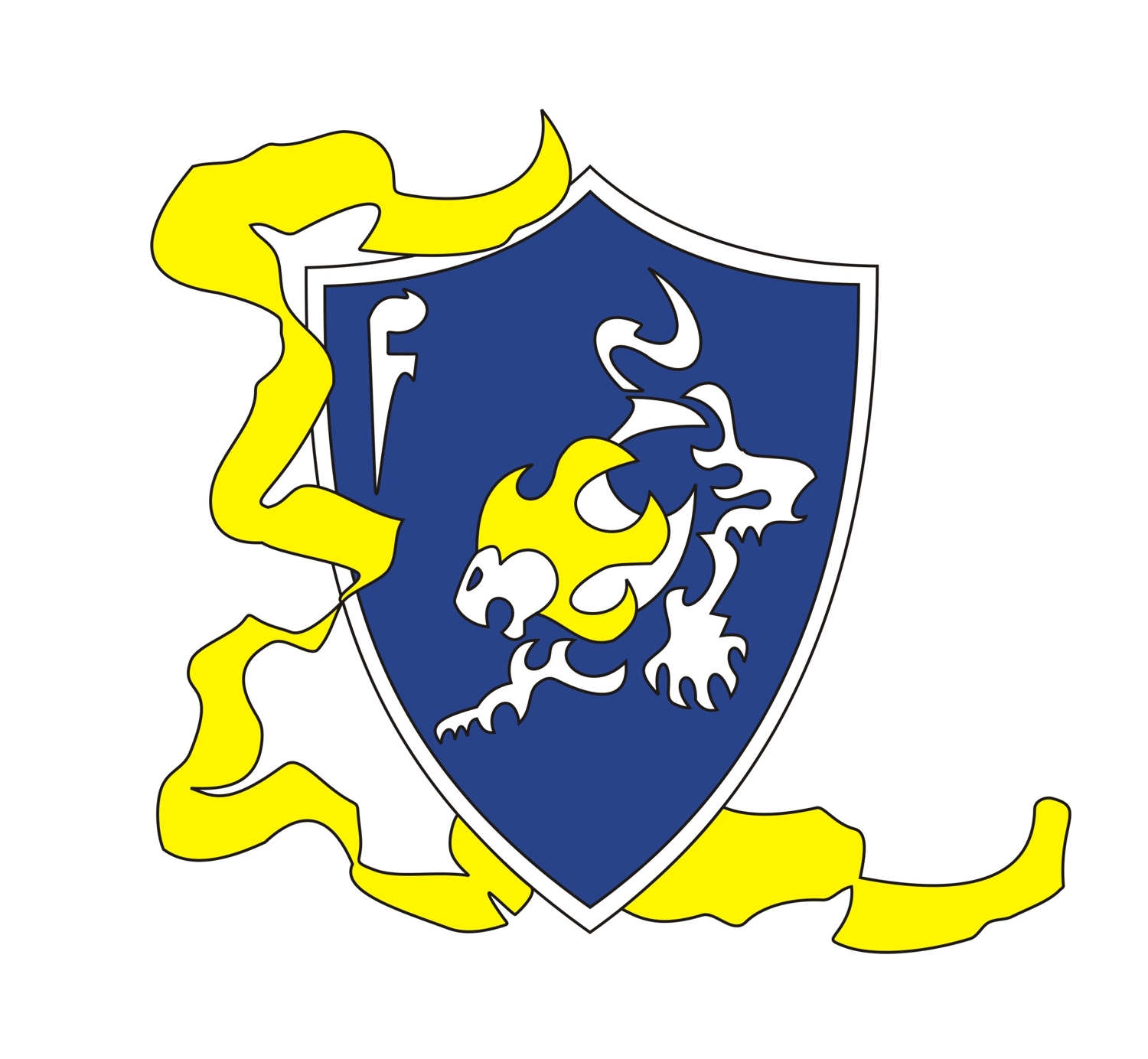 Escudo da International Brazilian Jiu-Jitsu Federation. Reprodução desenhada por Cid Costa Neto a partir da original, que se encontra no site oficial da entidade. Data: 20/Dez/2006.